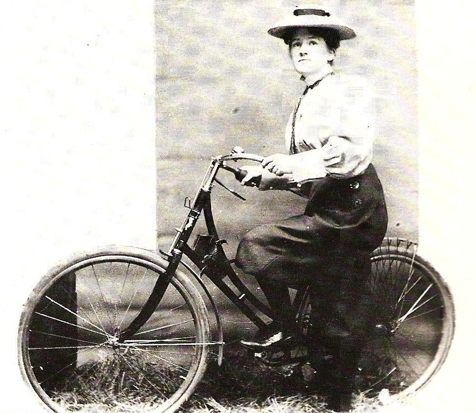 Annie Dawson Wallace on a bicycle in a cycling suit.